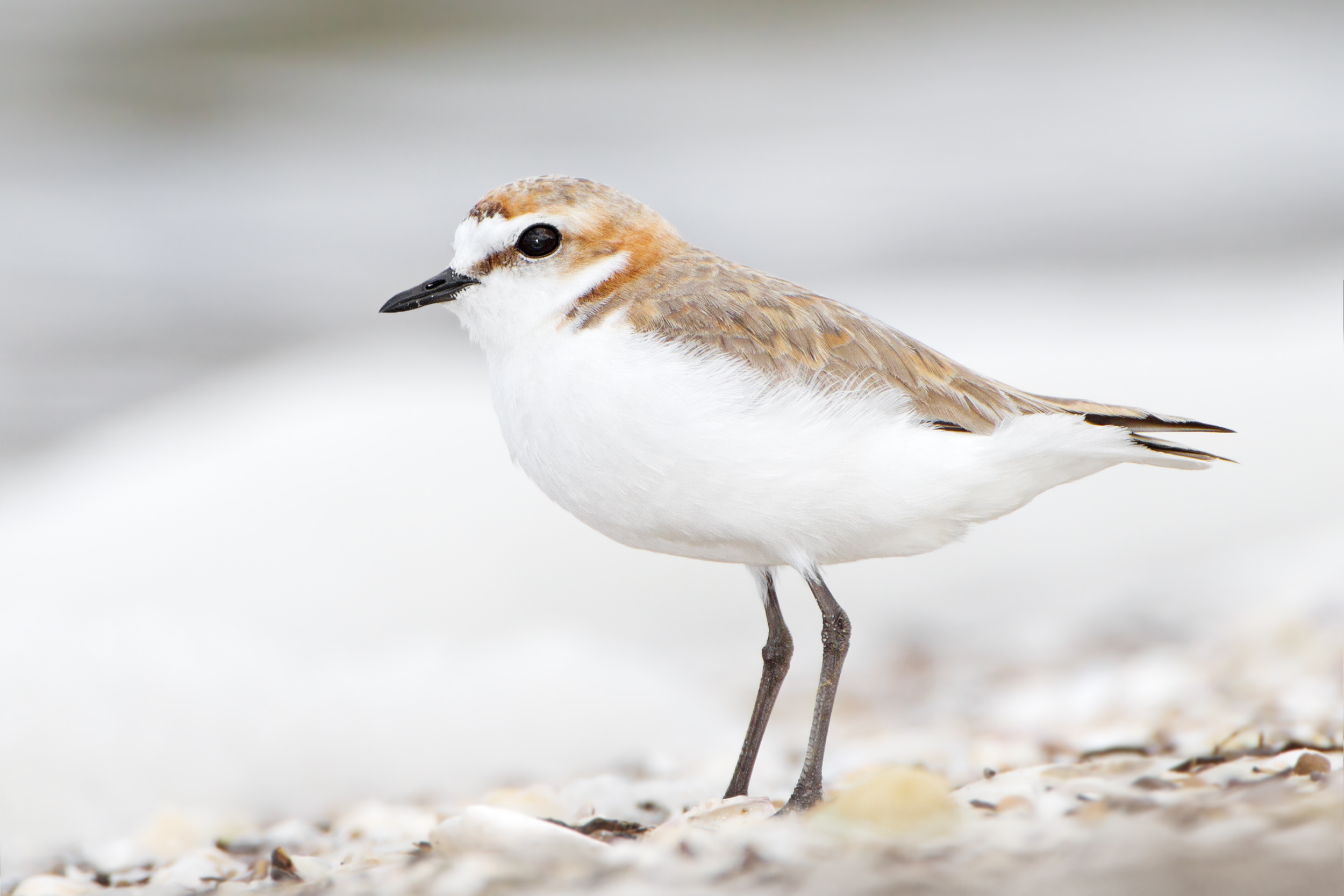 Red-capped Plover (Charadrius ruficapillus) female, Ralph's Bay, Tasmania, Australia